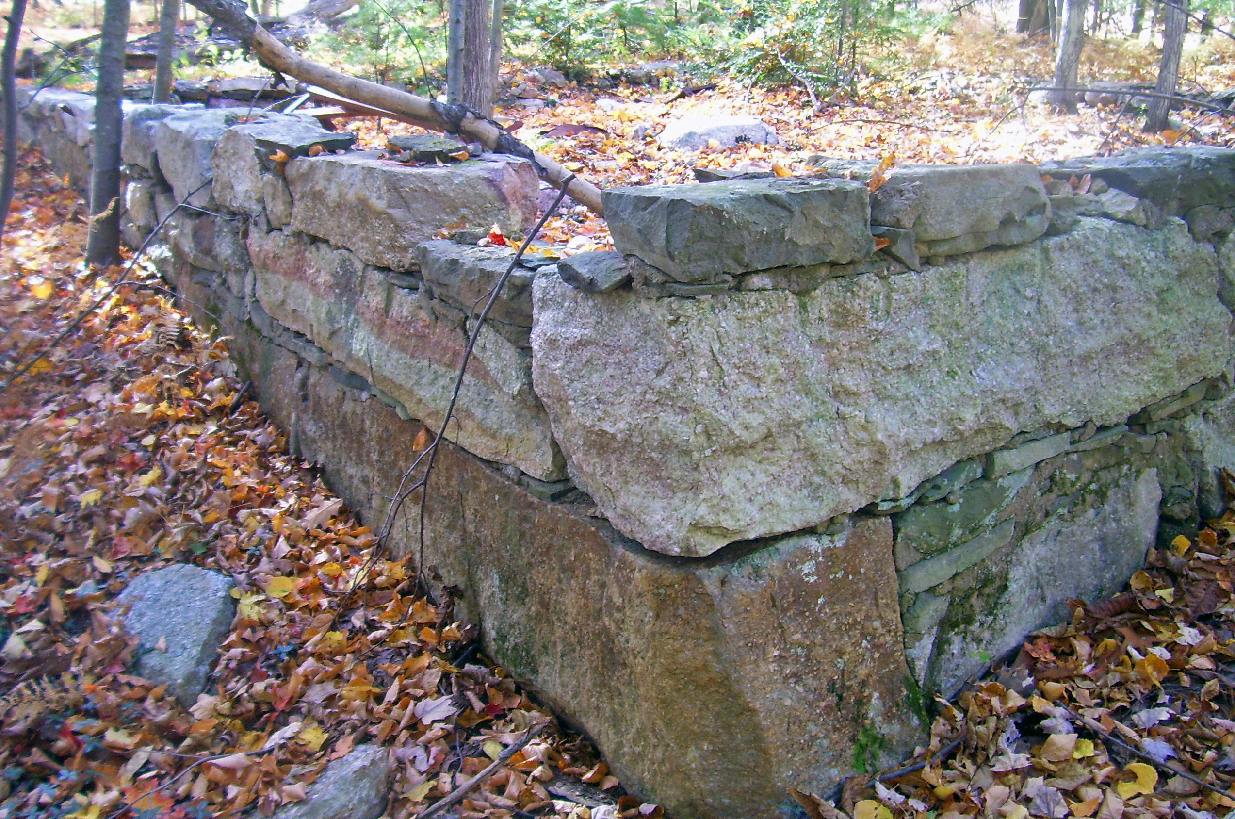 Remains of Davis House site in Trapps Mountain Hamlet Historic District, a ghost town on the Shawangunk Ridge in Gardiner, NY, USA